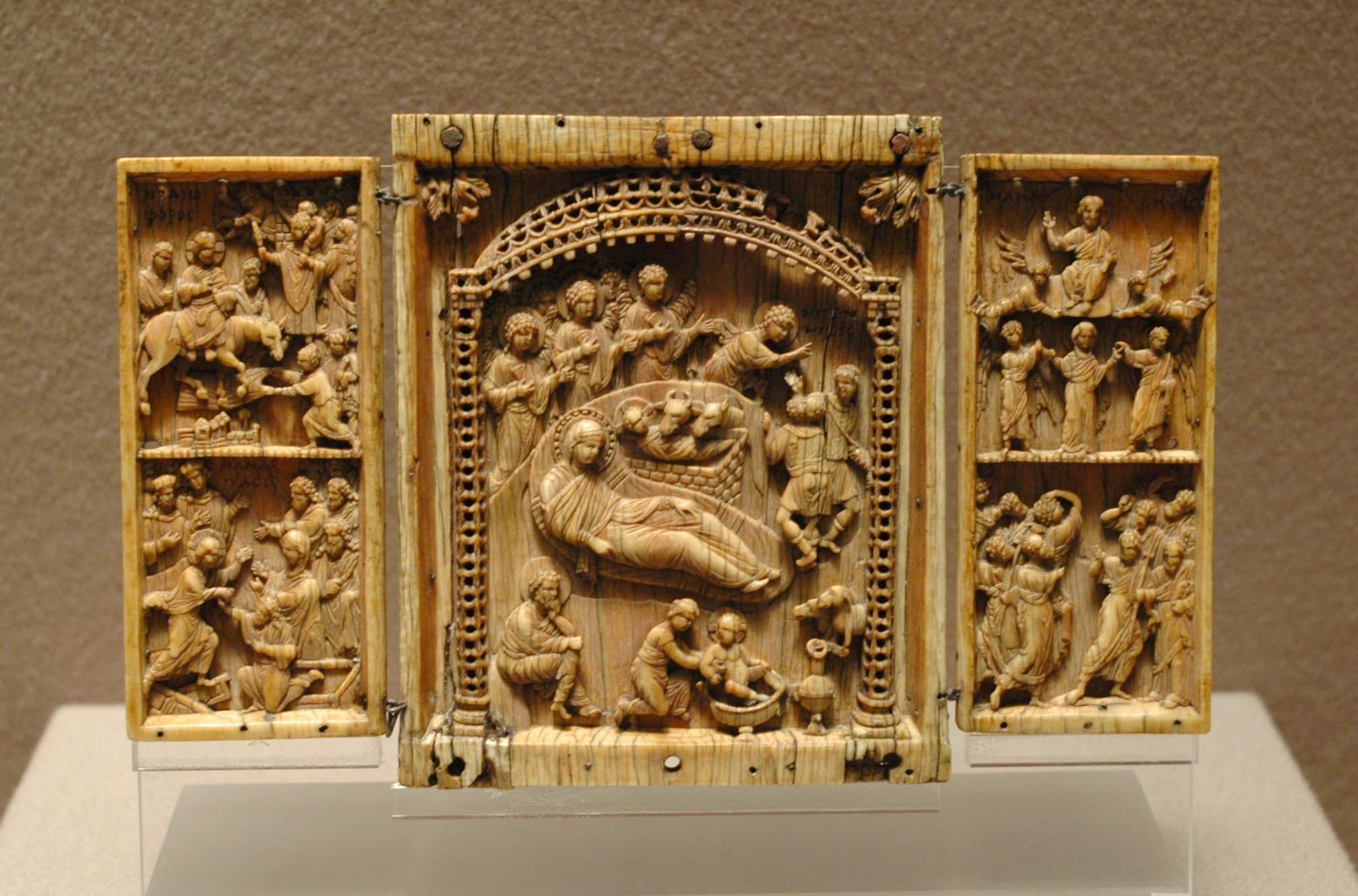 Scenes from the life of Jesus Christ, triptych. Constantinople, late 10th c., crimson ivory.